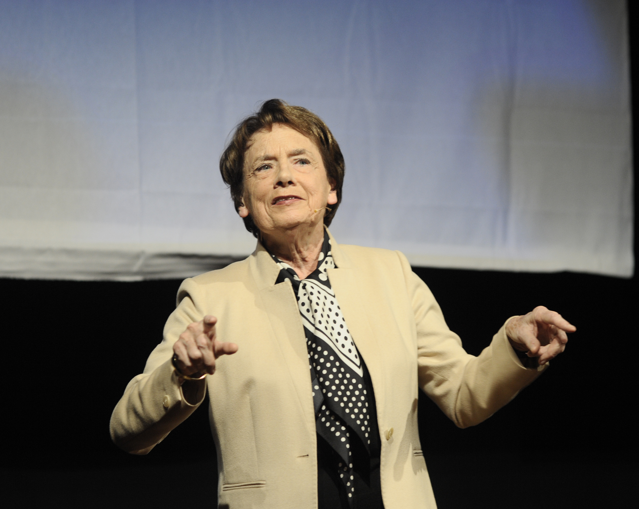 Catherine Lalumière at WikiStage ESCP Europe